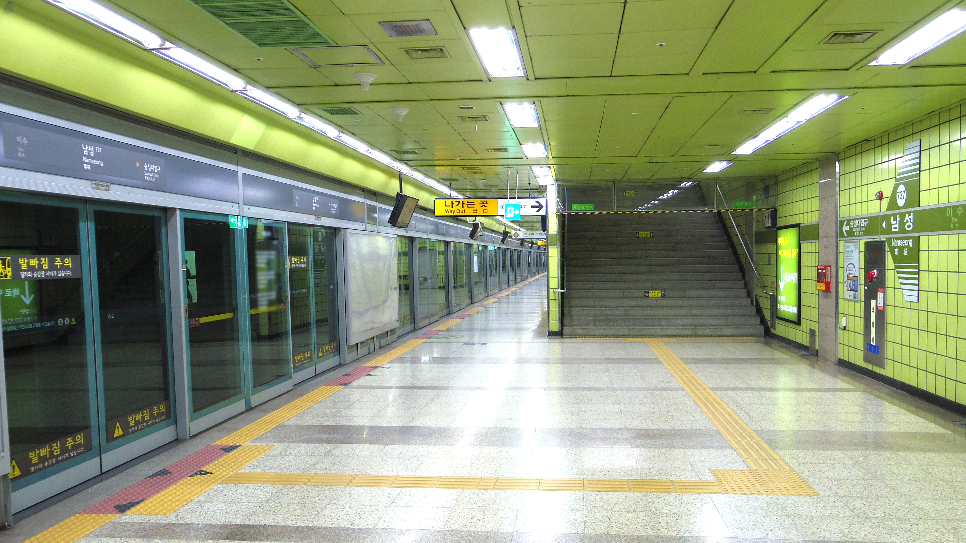 The Onsu-bound platform at Namseong Station on the Seoul Subway Line 7 in Dongjak-gu, Seoul, Republic of Korea(South Korea)